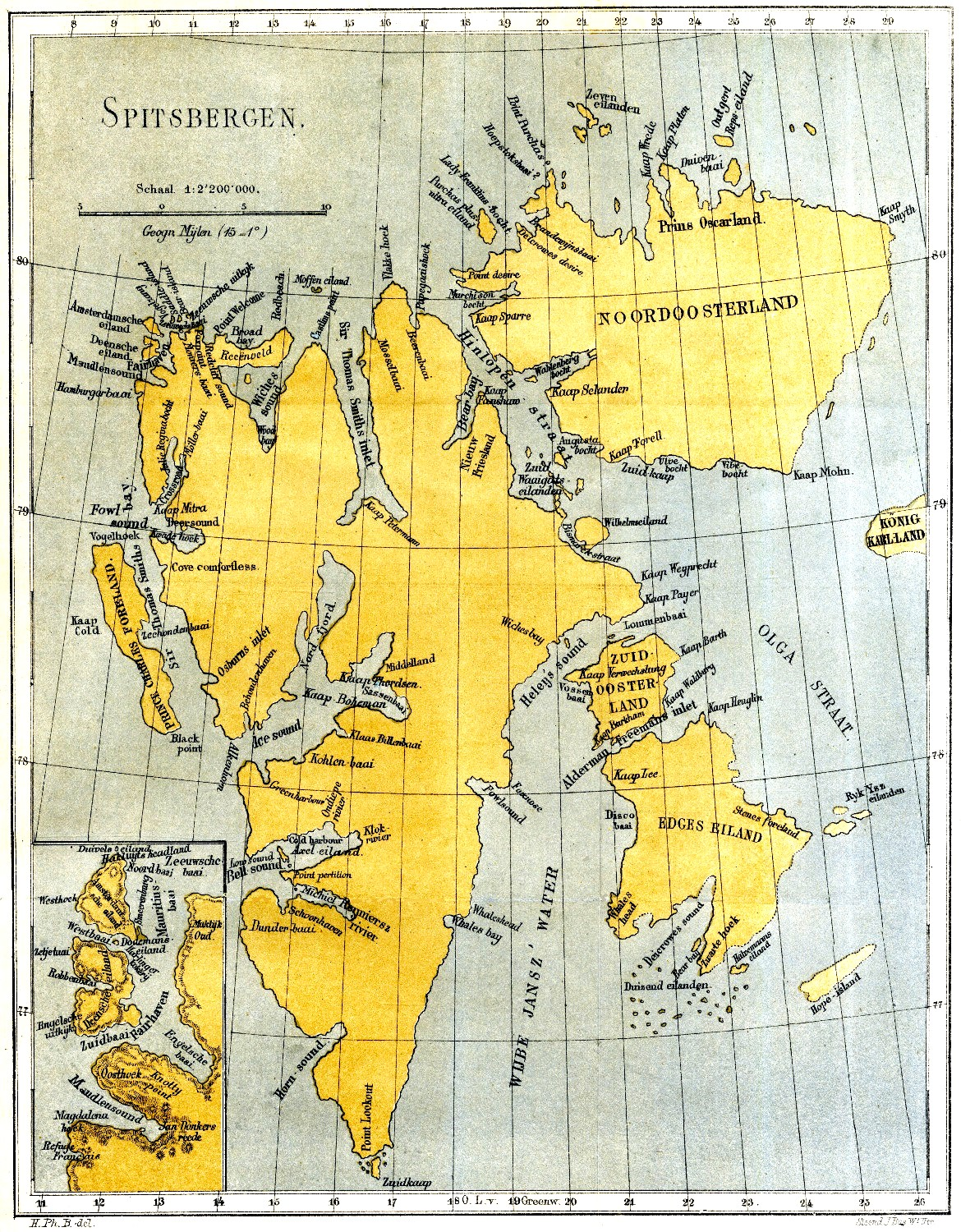 Map of Spitsbergen c. 1873 from GESCHIEDENIS DER NOORDSCHE COMPAGNIE